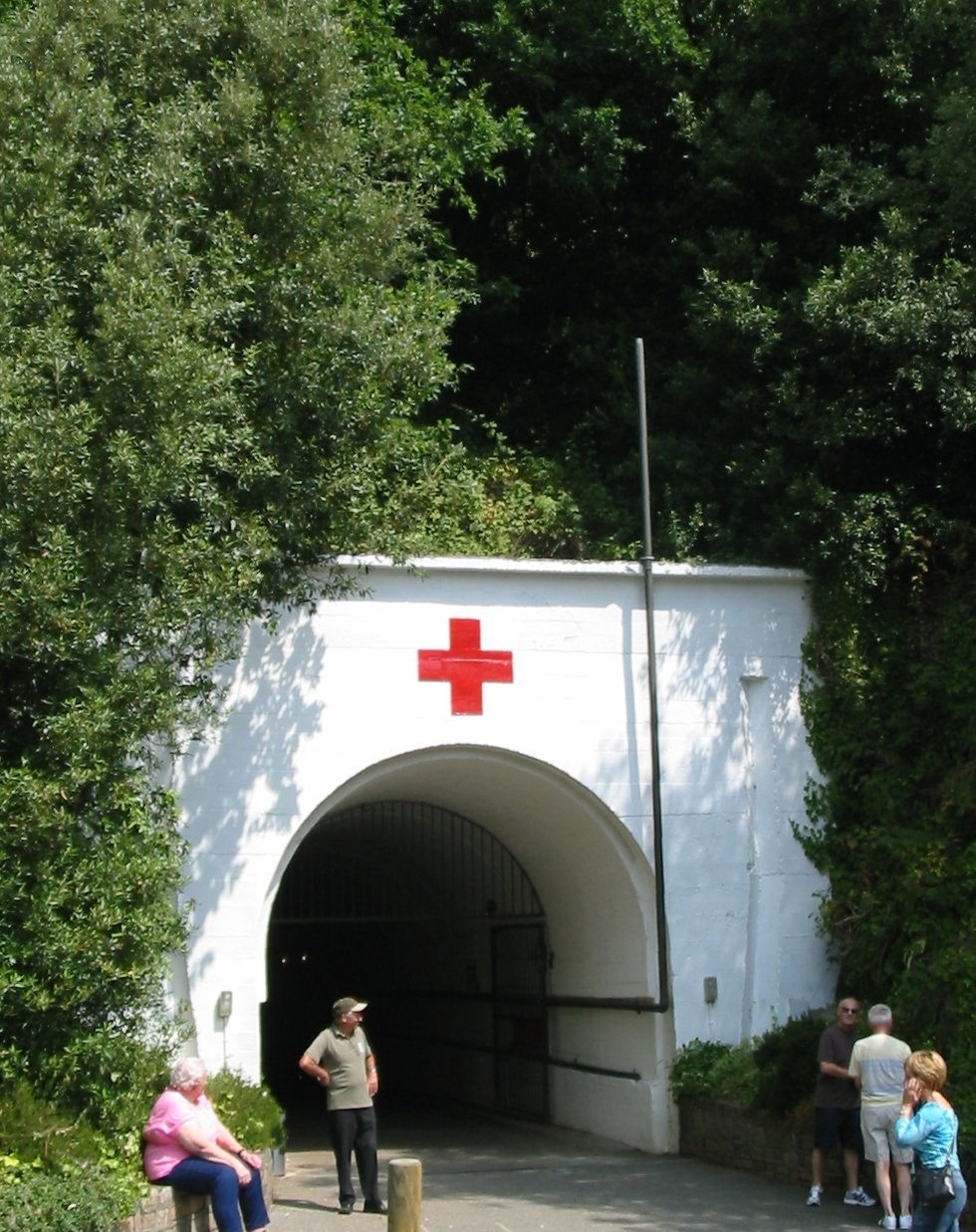 German Underground Hospital (Jersey War Tunnels) Jersey - entrance to WWII German Occupation complex, now museum